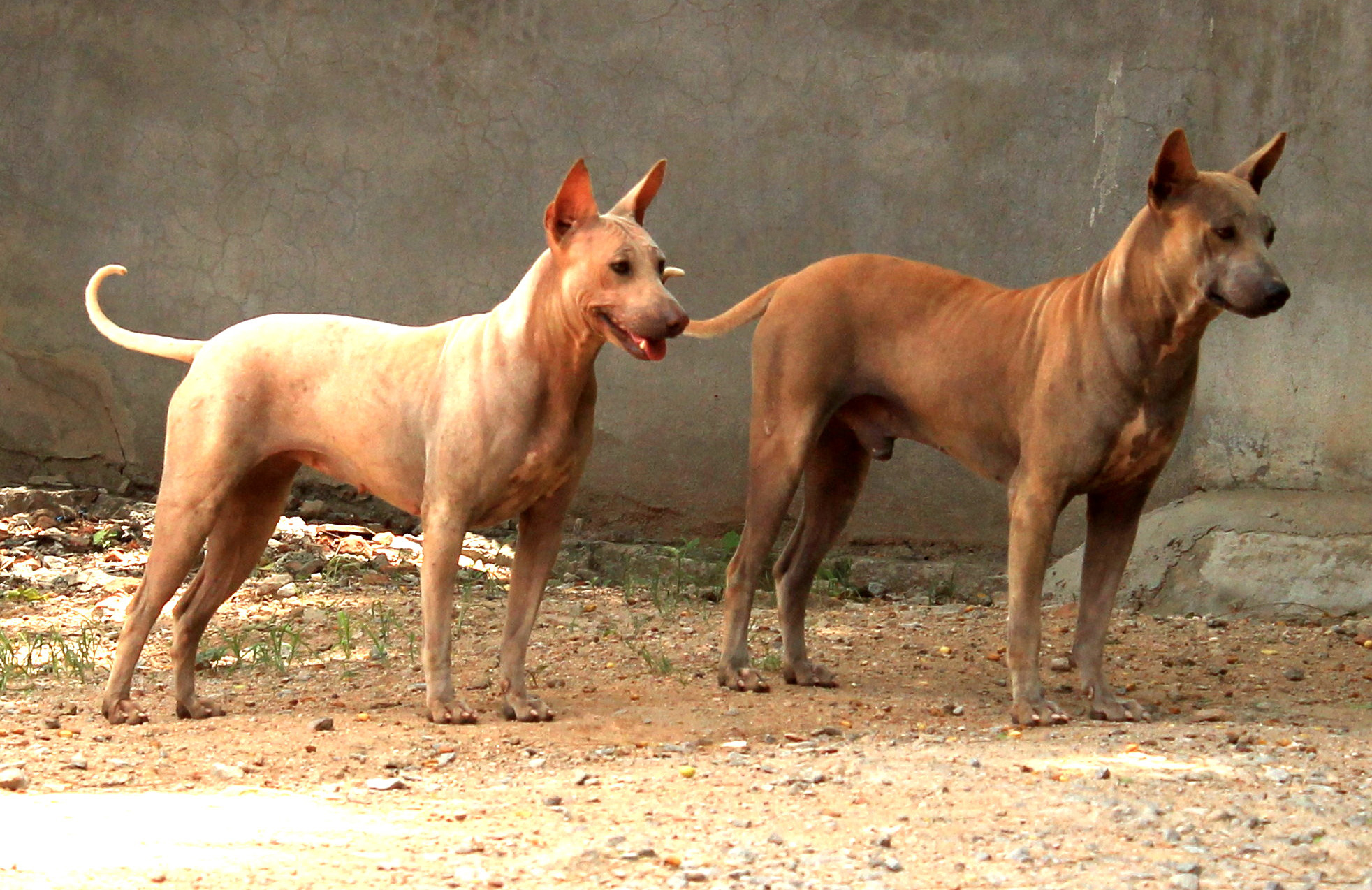 Pair Guarding